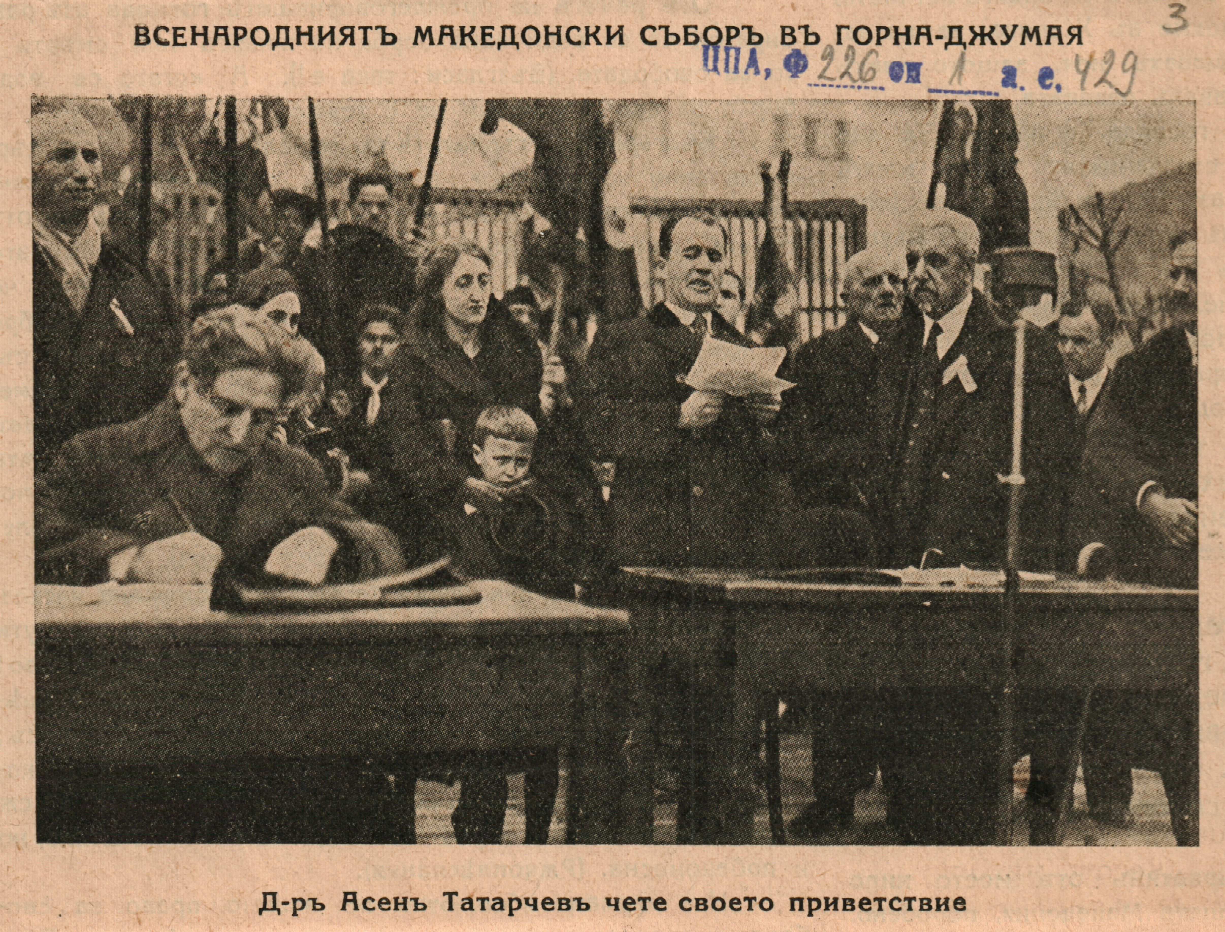 Photo from the Macedonian National Council, 1933 in Gorna Dzhumaya (Blagoevgrad).